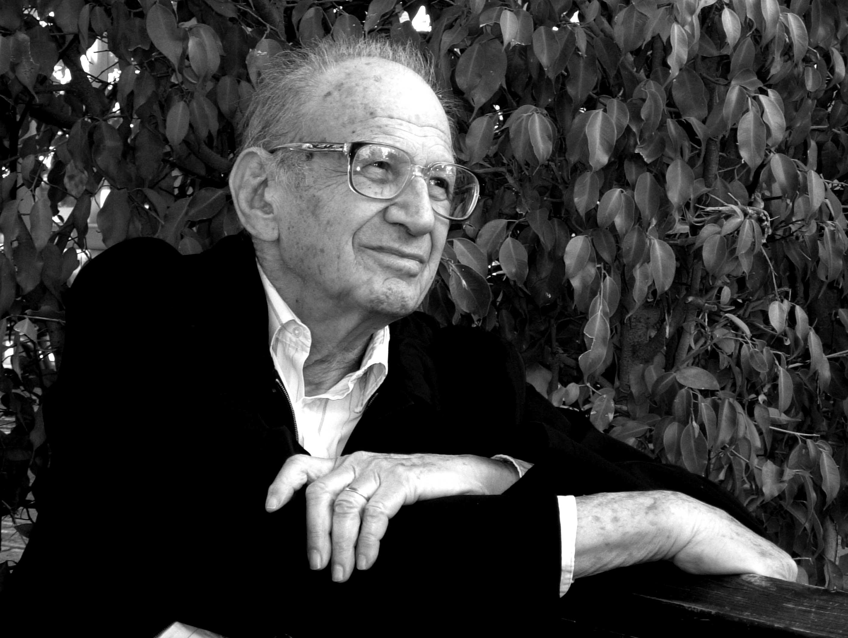 Natra Sergiu photo